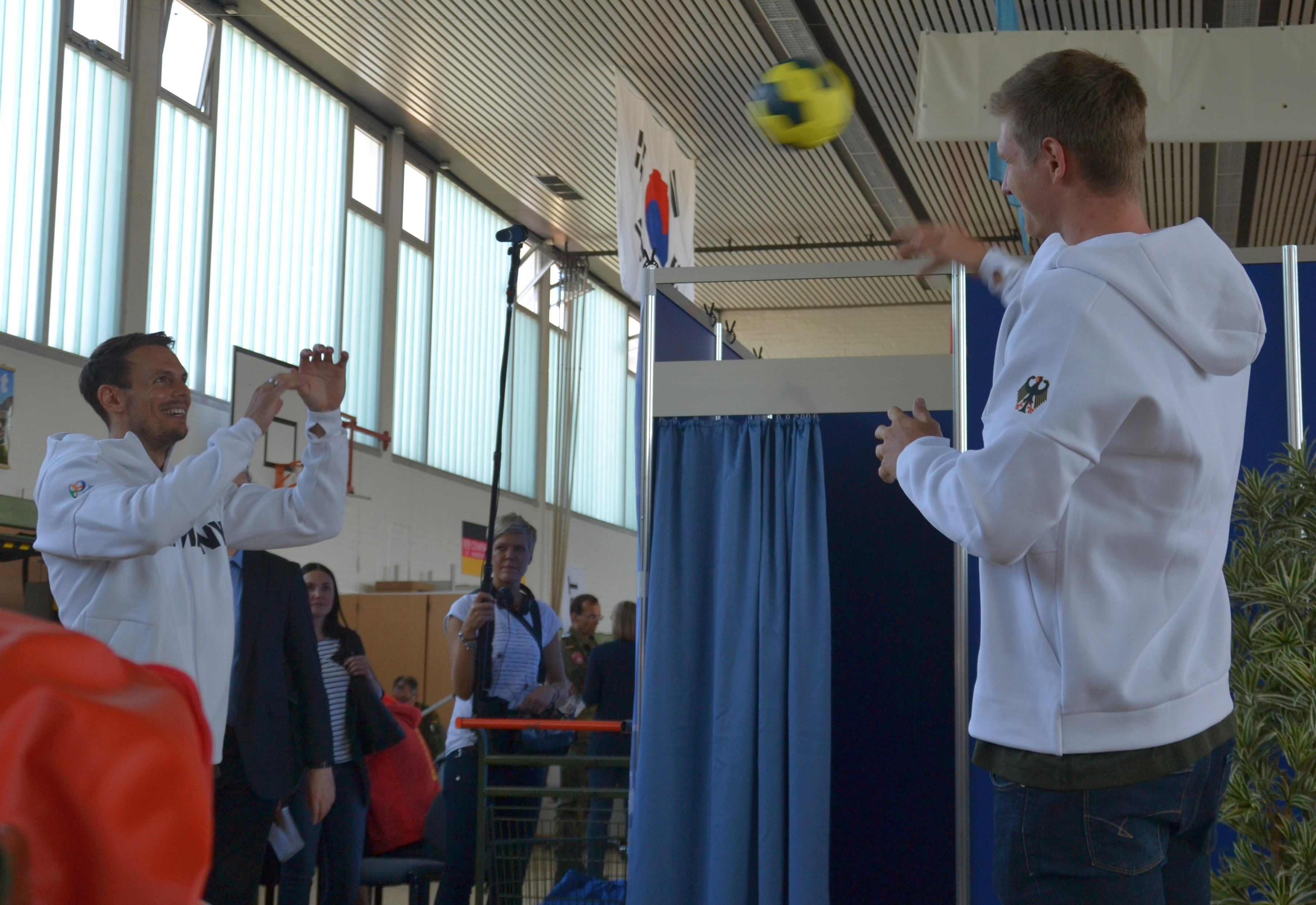 Media day of the clothing of the German Olympic team for Rio 2016 in the Emmich-Cambrai-Kaserne in Hanover. Handball players Kai Häffner und Finn Lembke.